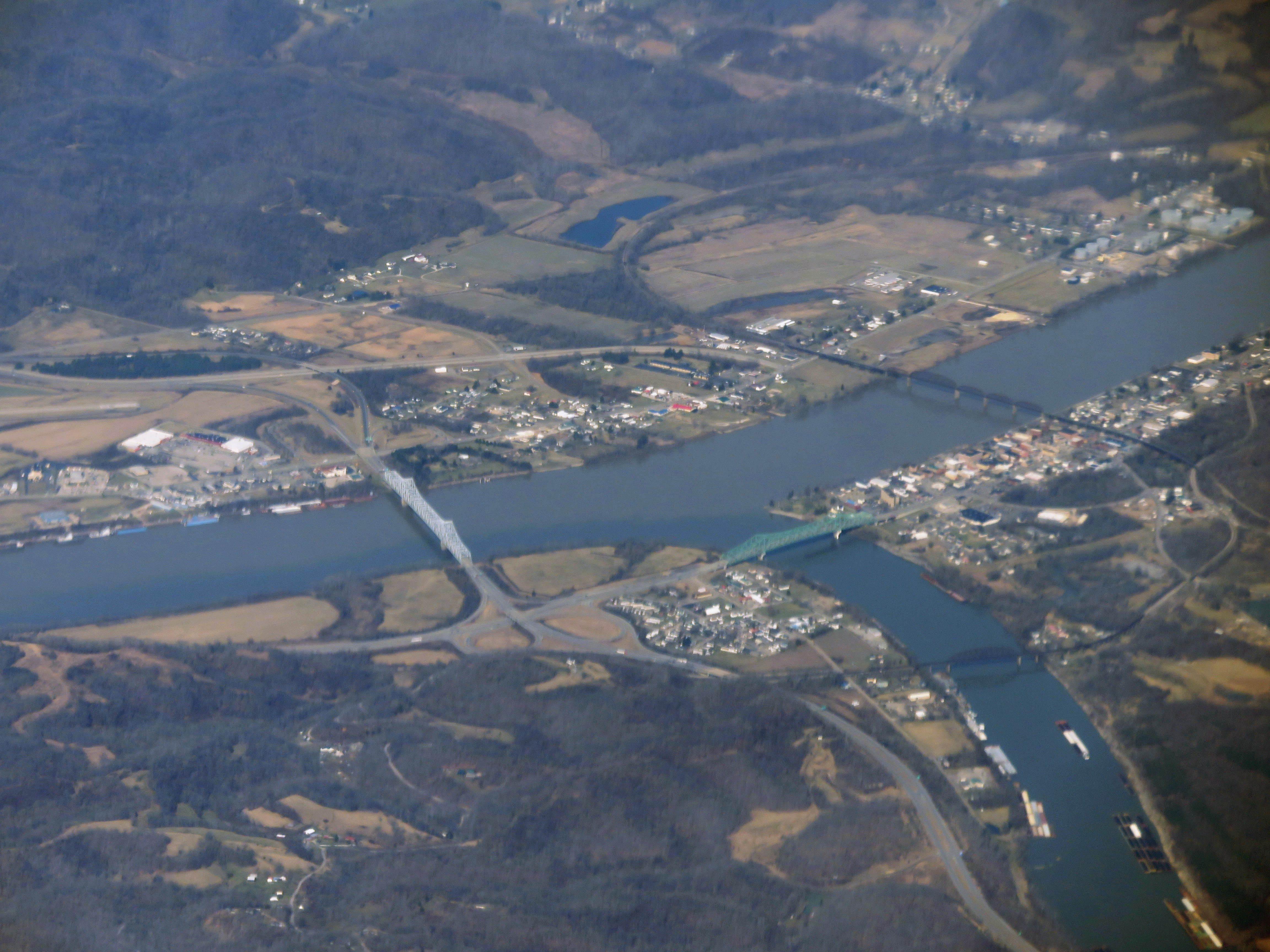 Aerial view of the Silver Memorial Bridge and Point Pleasant Rail Bridge over the Ohio River in 2019